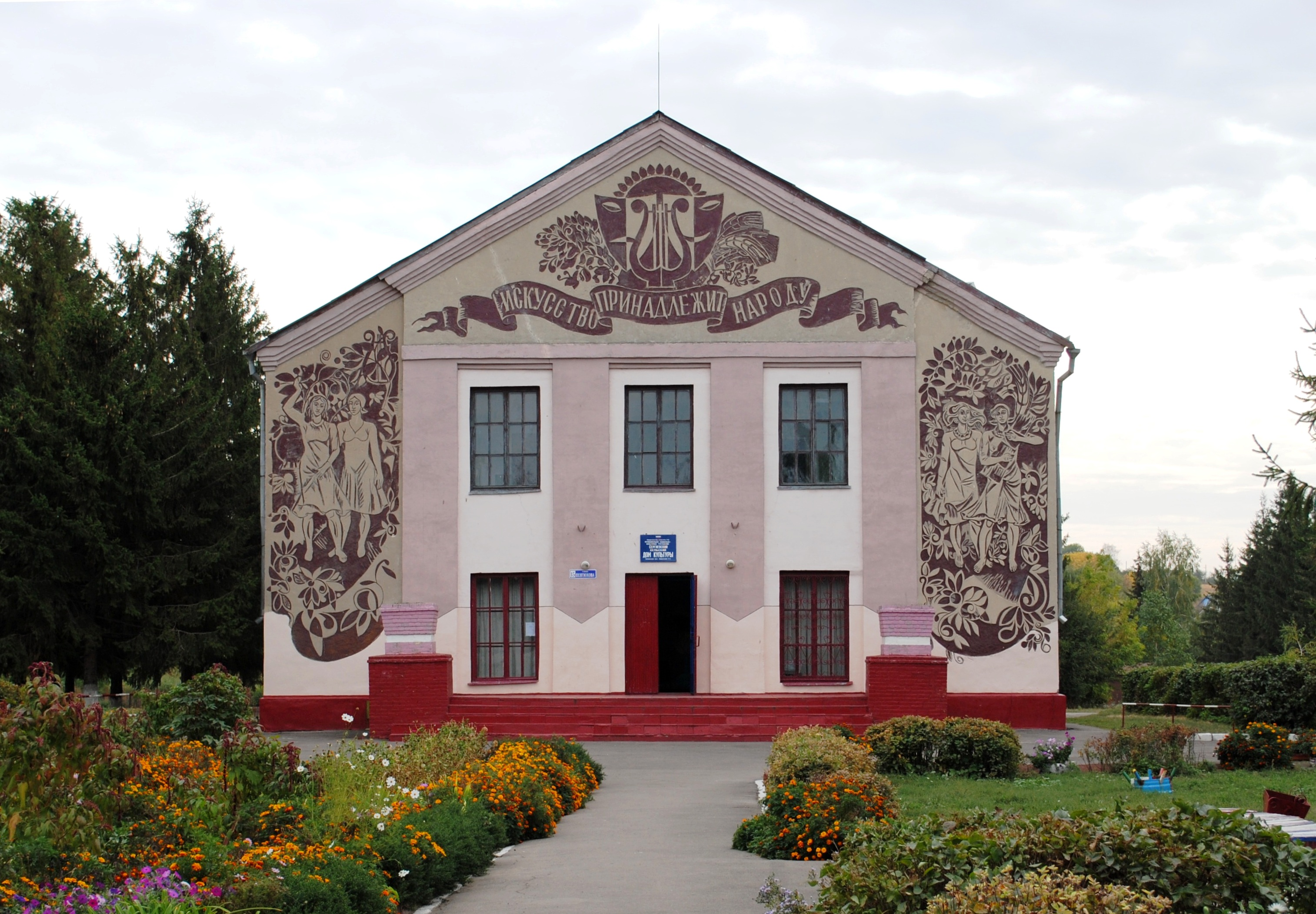 Sergievskoe in Livny